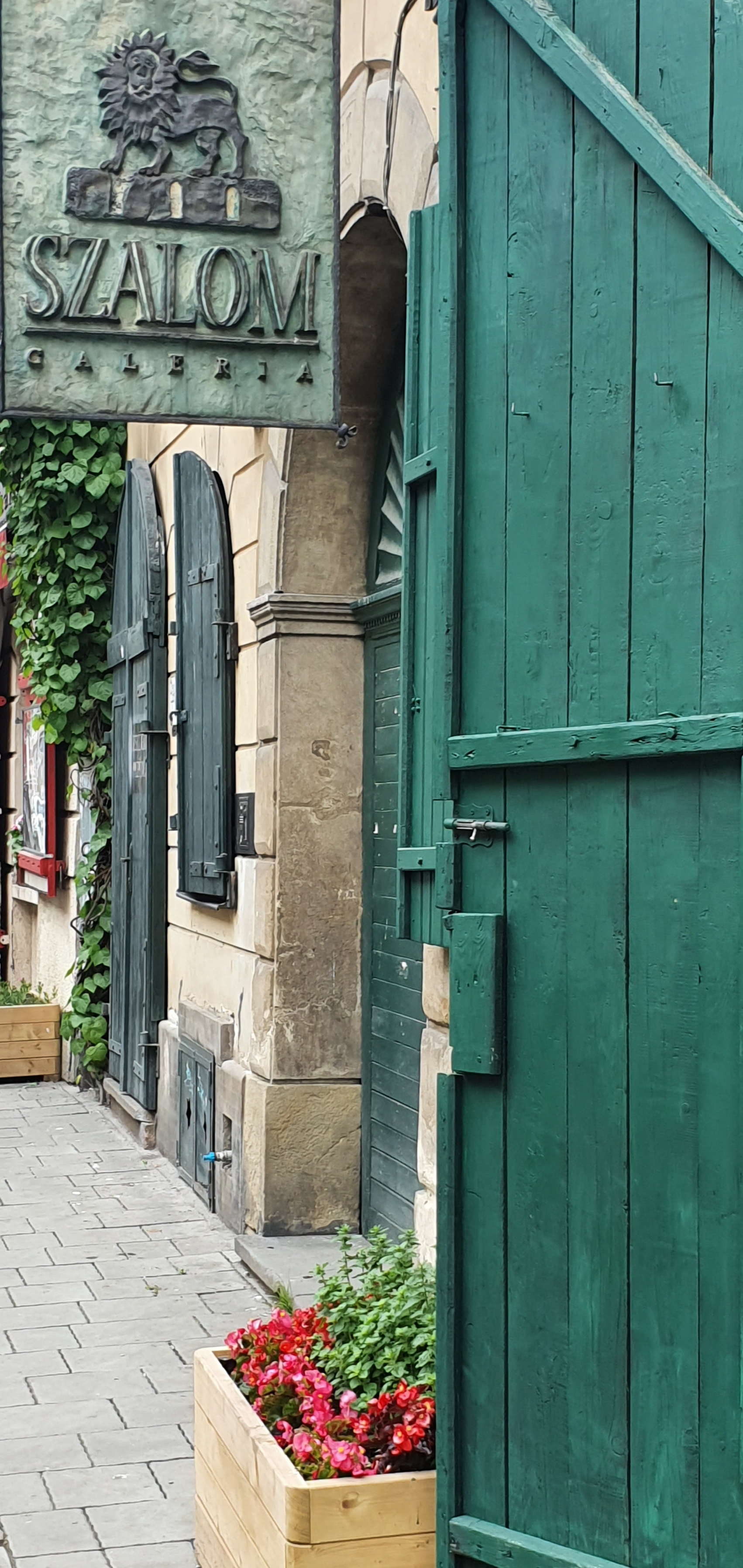 Szalom Galeria